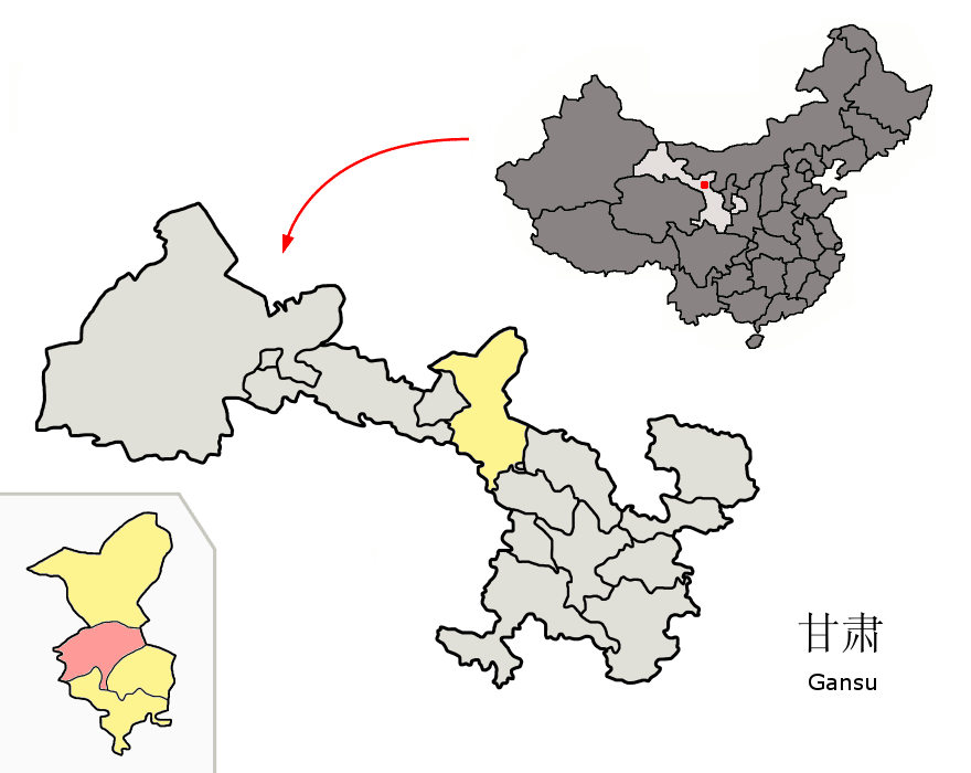 Location of Liangzhou District (pink) within Wuwei Prefecture (yellow) and Gansu province of China Map drawn in september 2007 using various sources, mainly : Gansu province administrative regions GIS data: 1:1M, County level, 1990 Gansu Counties map from